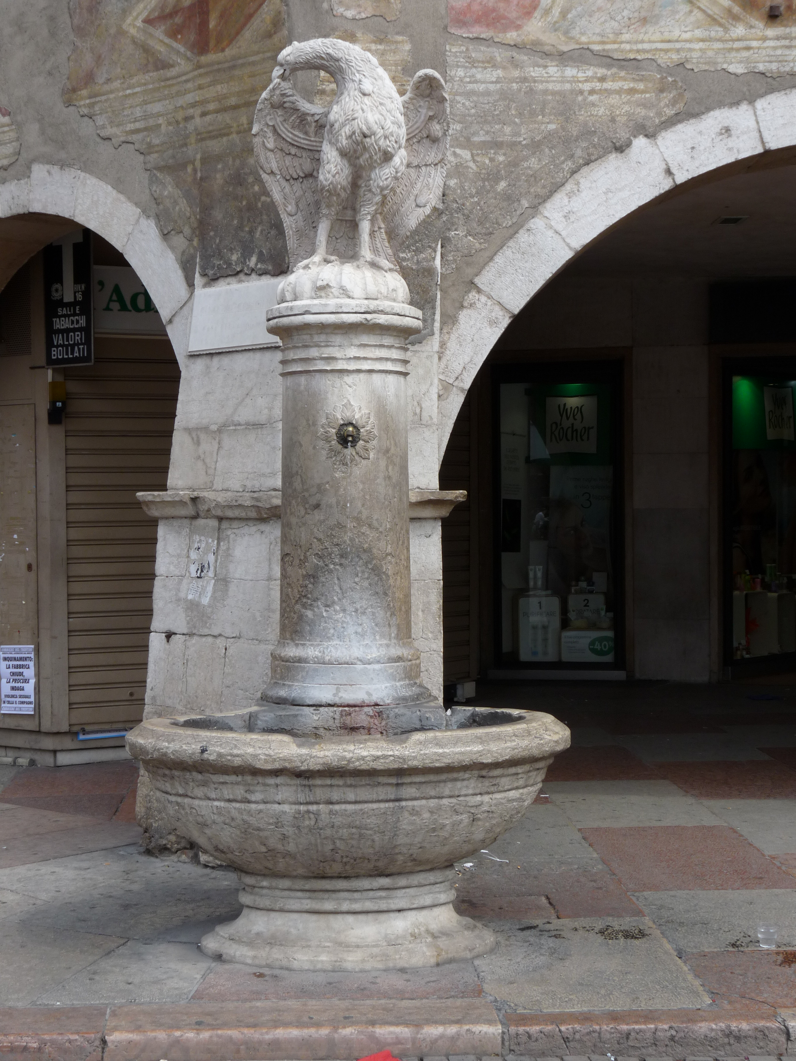 Trento (Italy): fountain of the eagle in piazza Duomo (Stefano Varner, 1850)